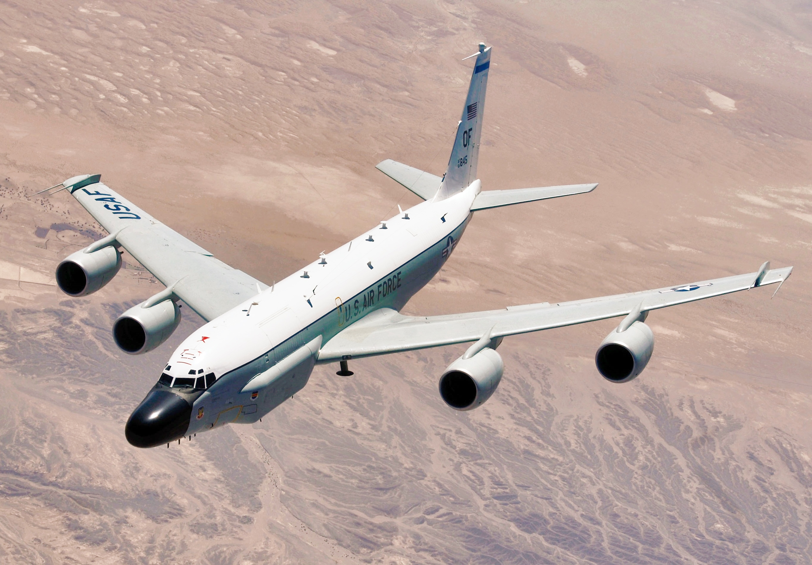 RC-135 Rivet Joint reconnaissance aircraft moves into position behind a KC-135T/R Stratotanker for an aerial refueling at a speed greater than 250 knots over Southwest Asia. When connected to the refueling boom, the aircraft will receive more than 40,000 pounds of fuel allowing it to remain on station or move on to other stations to perform its mission. The RC-135 flightcrew of Capt. Mike Edmondson, pilot; 1st Lt. Erik Todoroff, copilot; and 1st Lt. Chris Young, navigator are deployed to the 763rd Expeditionary Reconnaissance Squadron, in Southwest Asia, from 343rd Reconnaissance Squadron, Offutt Air Force Base, Neb. They are natives of East Moline, Il., Jackson, Mich., and Charleston S.C.. (U.S. Air Force photo by Master Sgt. Lance Cheung)